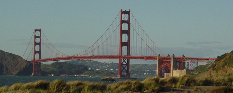 Photo of Golden Gate Bridge in California.